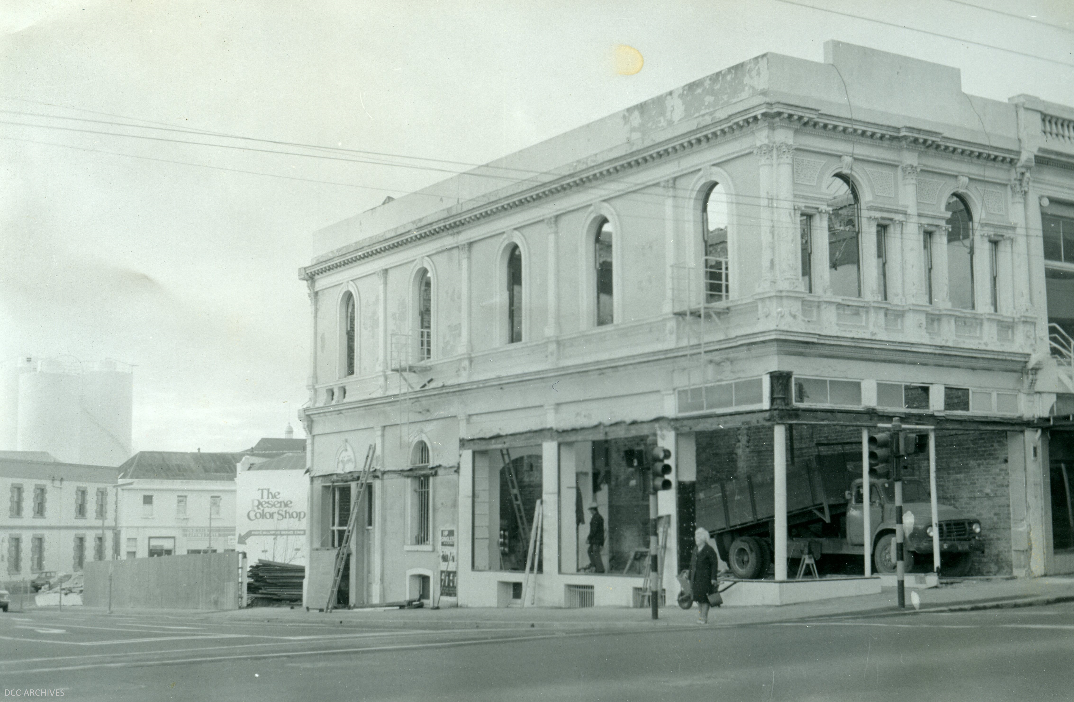 Photograph of building on the corner of George Street and Moray Place, Dunedin, being demolished circa 1972